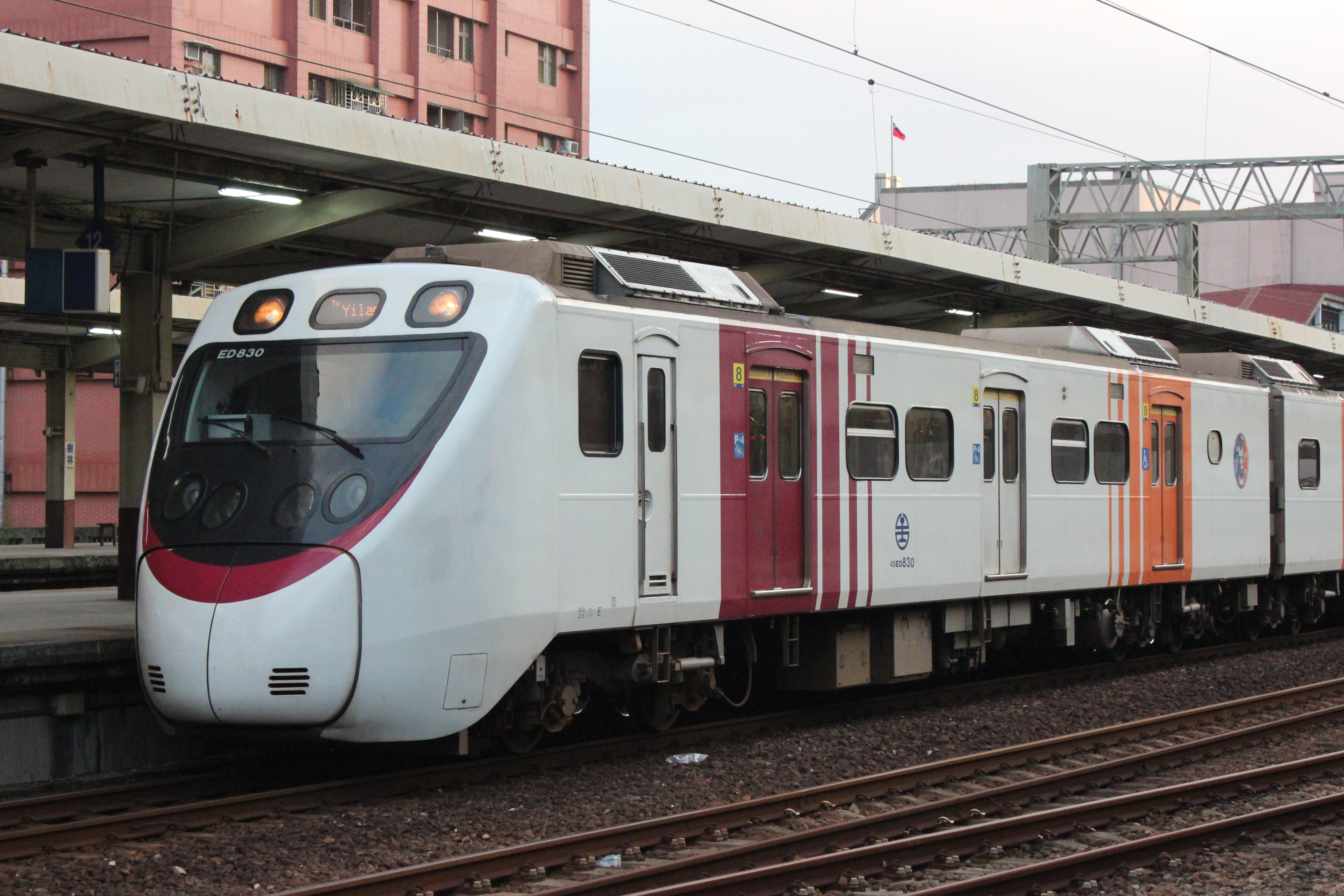 TRA EMU800 series EMU set ED830 in JR Shikoku 8000 series style livery at TRA Shulin Station in Taiwan